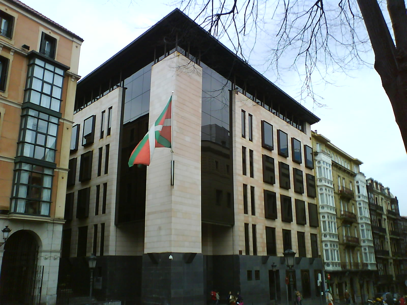 Sabin Etxea, sede del Partido Nacionalista Vasco, PNV. The building is constructed in 1991 on the place of a former Sabin Etxea.